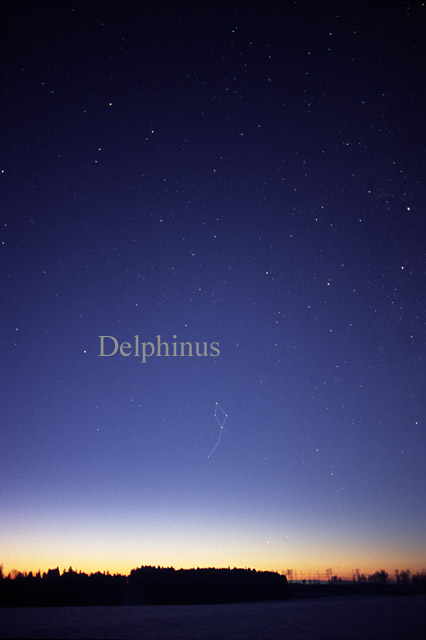 Photography of the constellation Delphinus, the dolphin